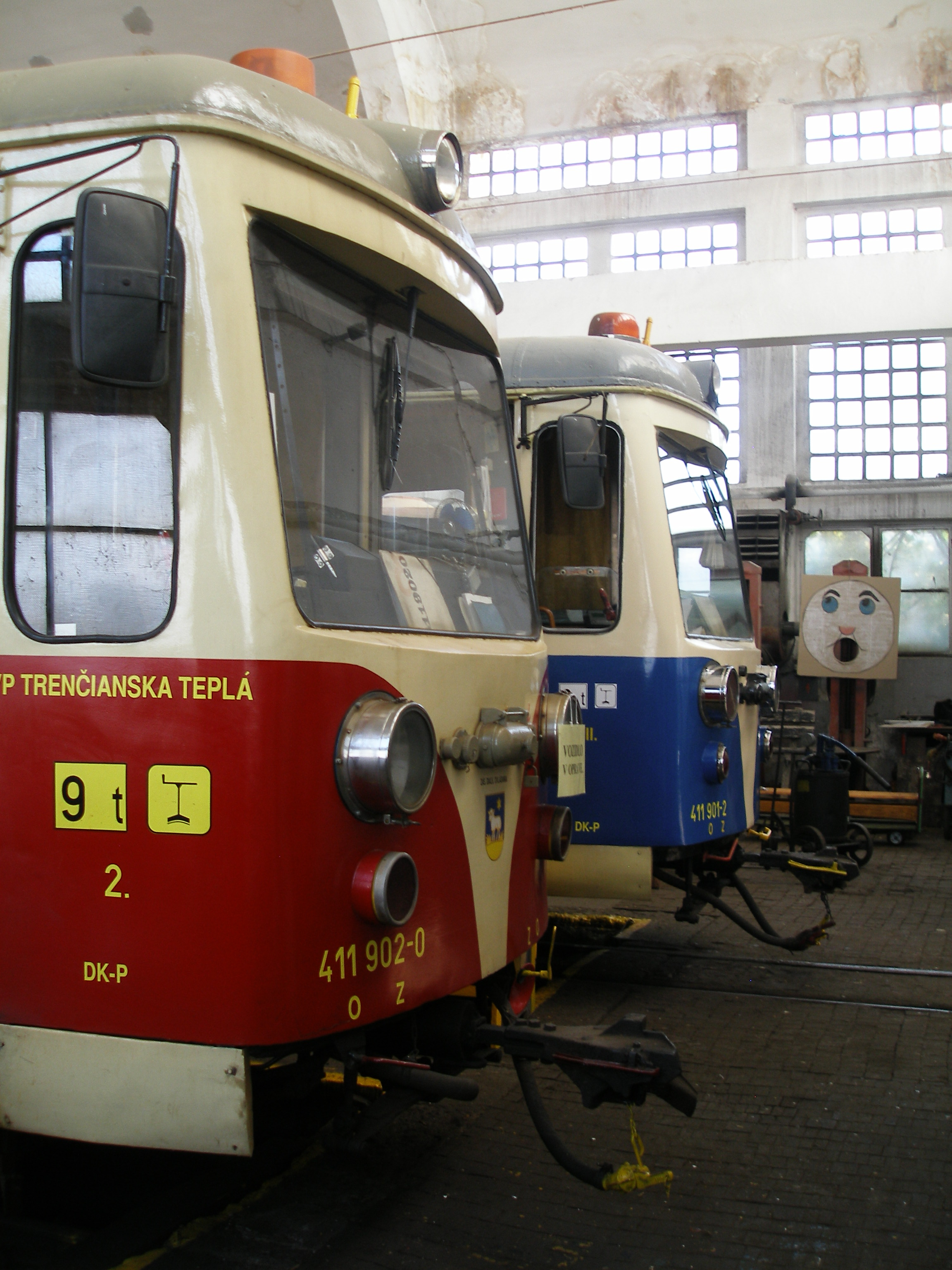 Cabs of 411.9 class electric units 411.902-0 and 411.901-2 in the Trenčin Electric Railway depôt building at Trenčianska Teplá, Slovakia